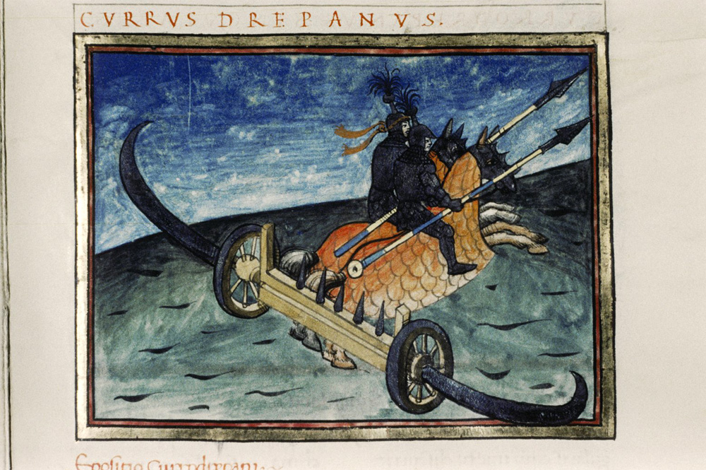 Currodrepanus (chariot with scythes attached to wheels, drawn by two horses with riders) depicted in folio 73 recto of the Notitia Dignitatum. Processed with Photoshop to rectify the outer rectangle.